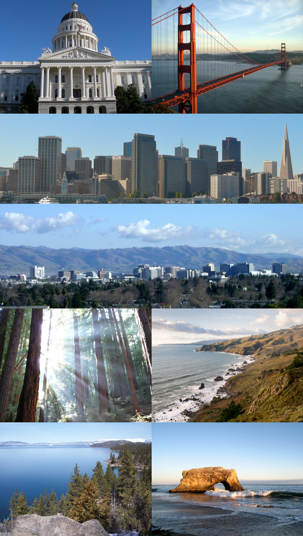 Montage of Northern California. Top left to right: California State Capitol in Sacramento, Golden Gate Bridge Middle top to bottom: San Francisco skyline, San Jose skyline Bottom left to right: Muir Woods National Monument, and the Northern California coast as seen from Muir Beach Overlook